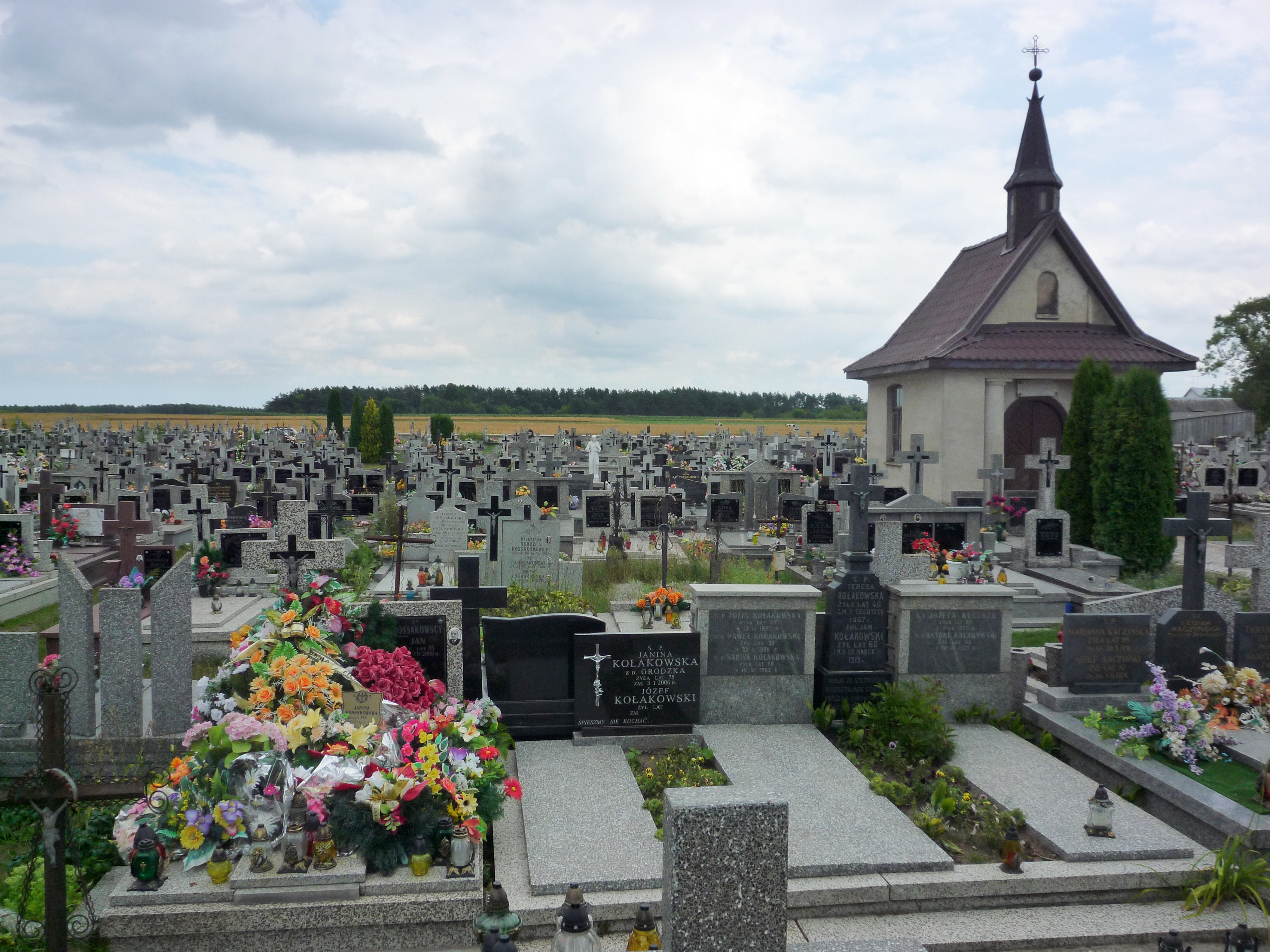 Cemetery in Kołaki Kościelne